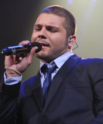 American Idol contestant Chris Richardson performing live during the American Idols LIVE! Tour 2007.